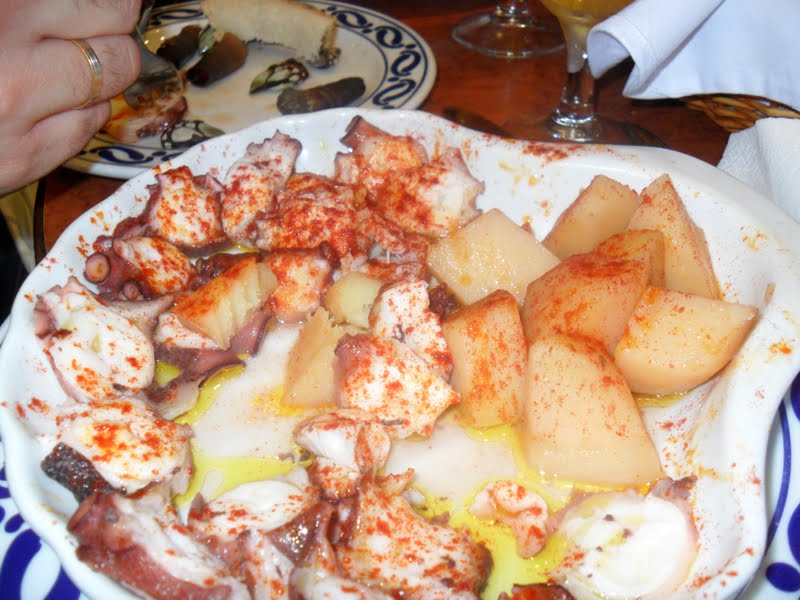 Cooked Octopus